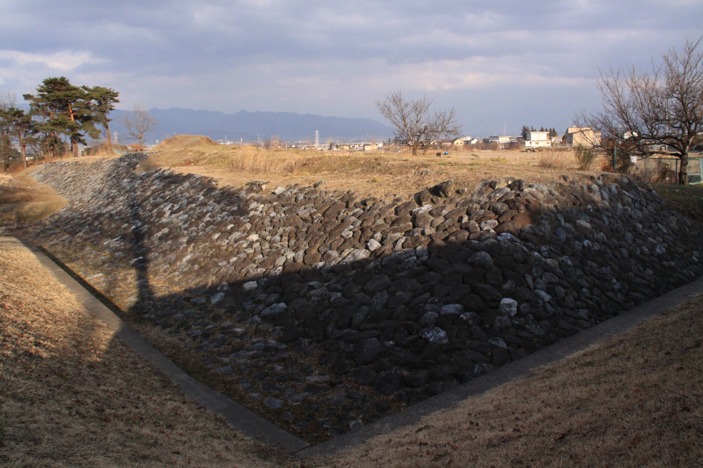 Shirane-shougigashira is the ruins of embankment.